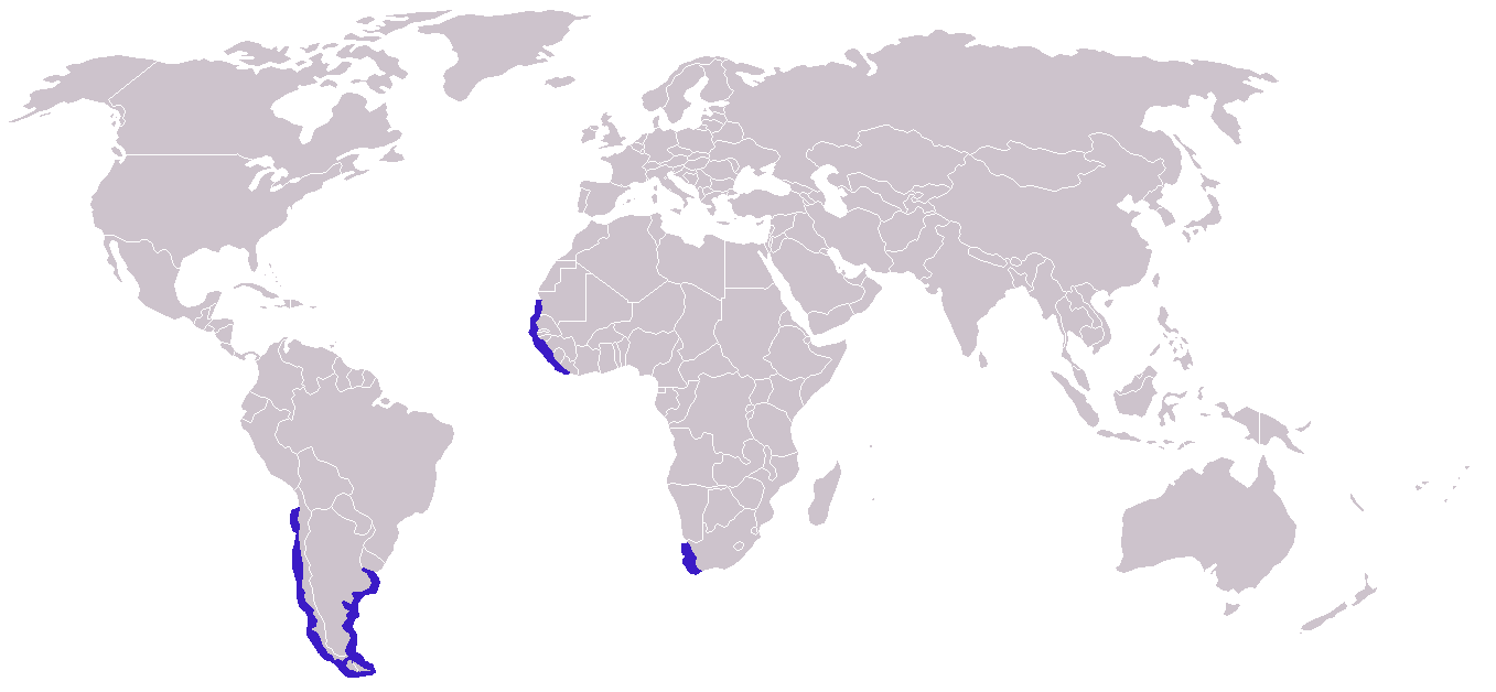 Range map of the Red Phalarope: Wintering grounds